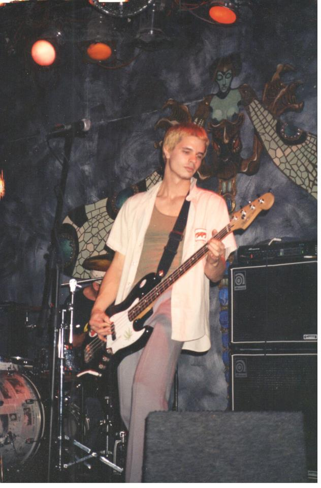 Robt Ptak live Photo